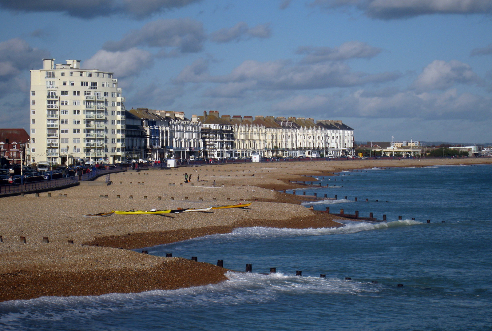 Eastbourne Beach Looking North East from the pier.